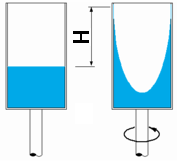 Schematic of the operating principle of a centrifugal pump Author : R. Castelnuovo (myself)